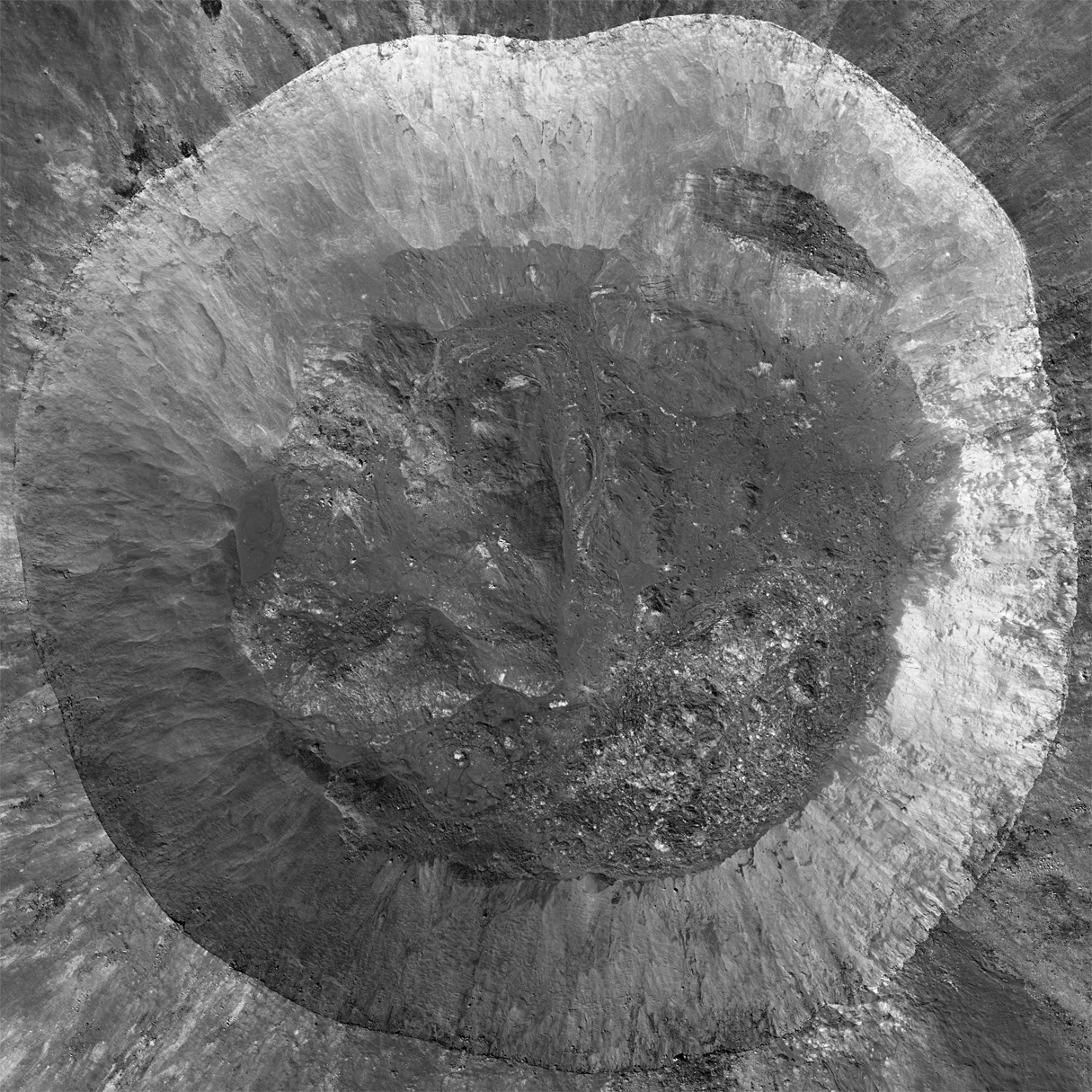 Mosaic of eight LROC NAC images provides this spectacular view of the interior of Giordano Bruno crater (21 km diameter). Resolution was reduced by 10 times to fit this Featured Image format, M185212646LR, M185219795LR, M185226944LR, M185234092LR. NASA/GSFC/Arizona State University.